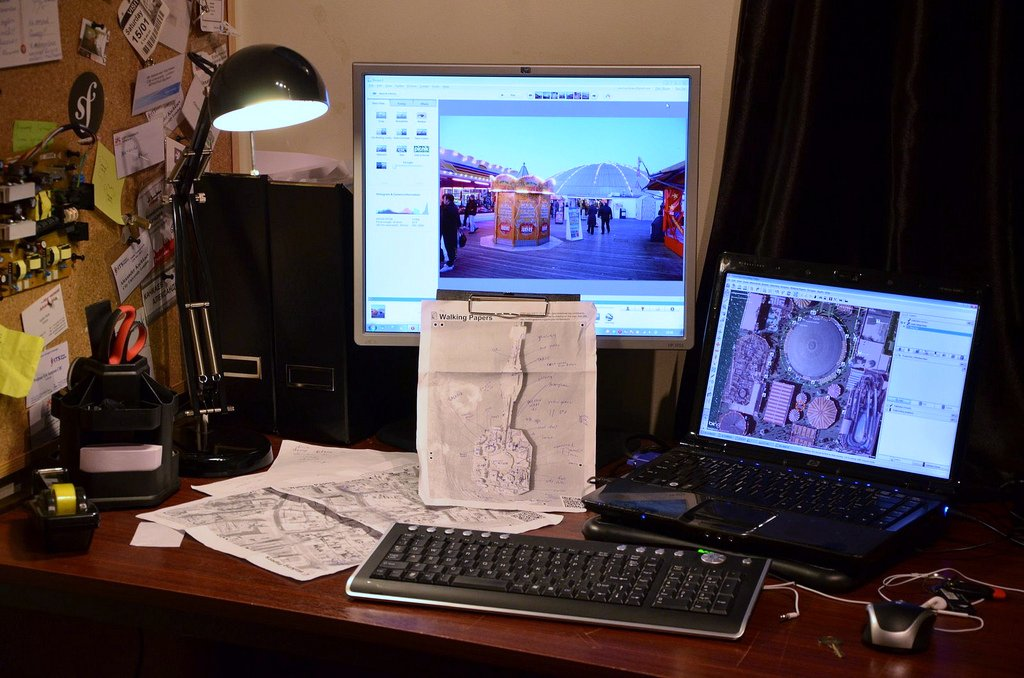 Adding data to OSM after mapping Brighton Pier